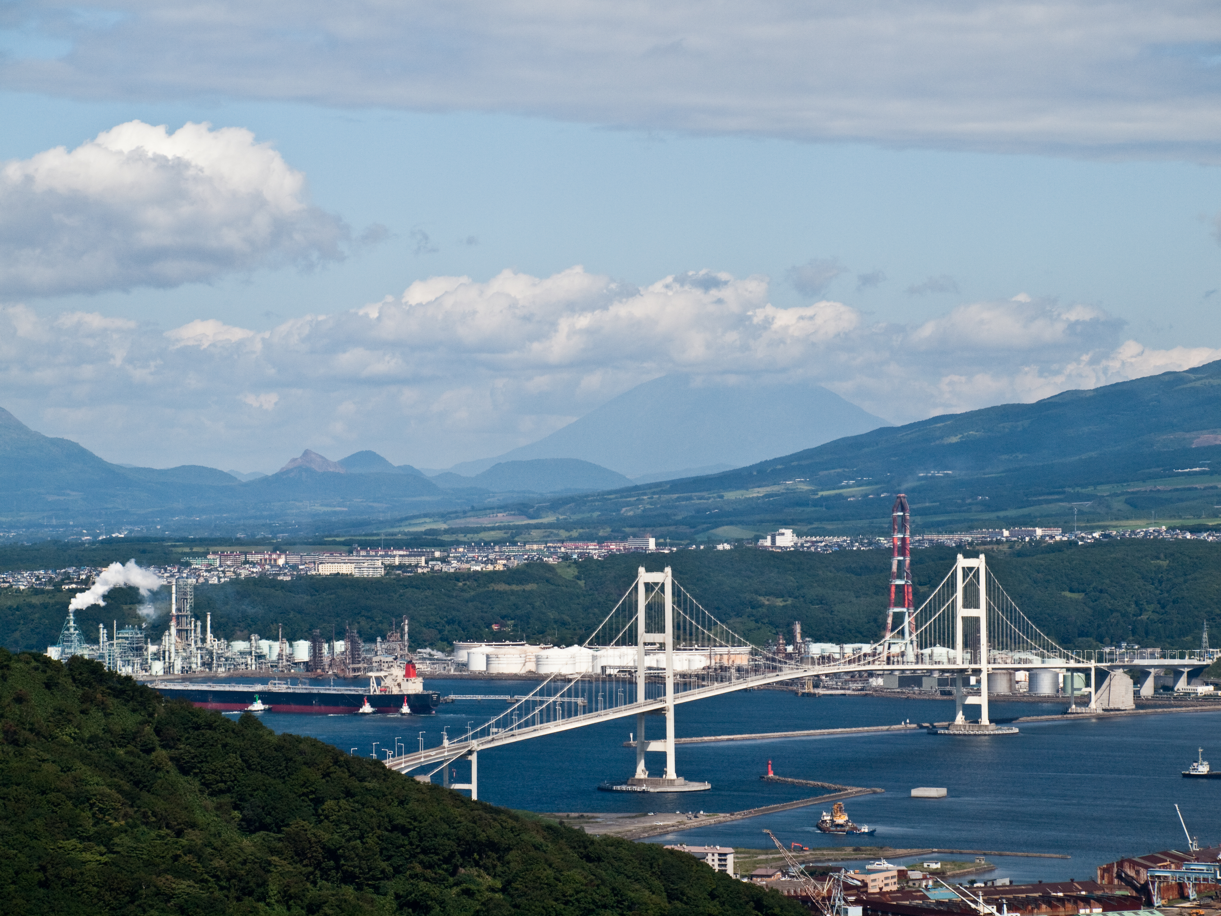 Hakucho Bridge